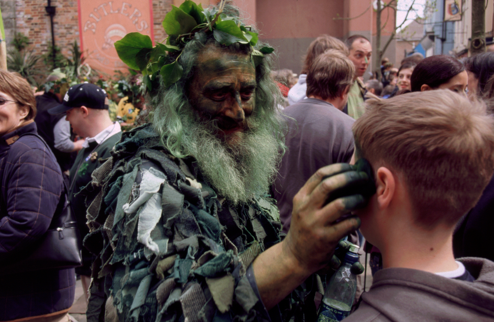 A Bogie at Jack in the Green, Hastings